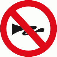 Diagram of road signs of Luxembourg